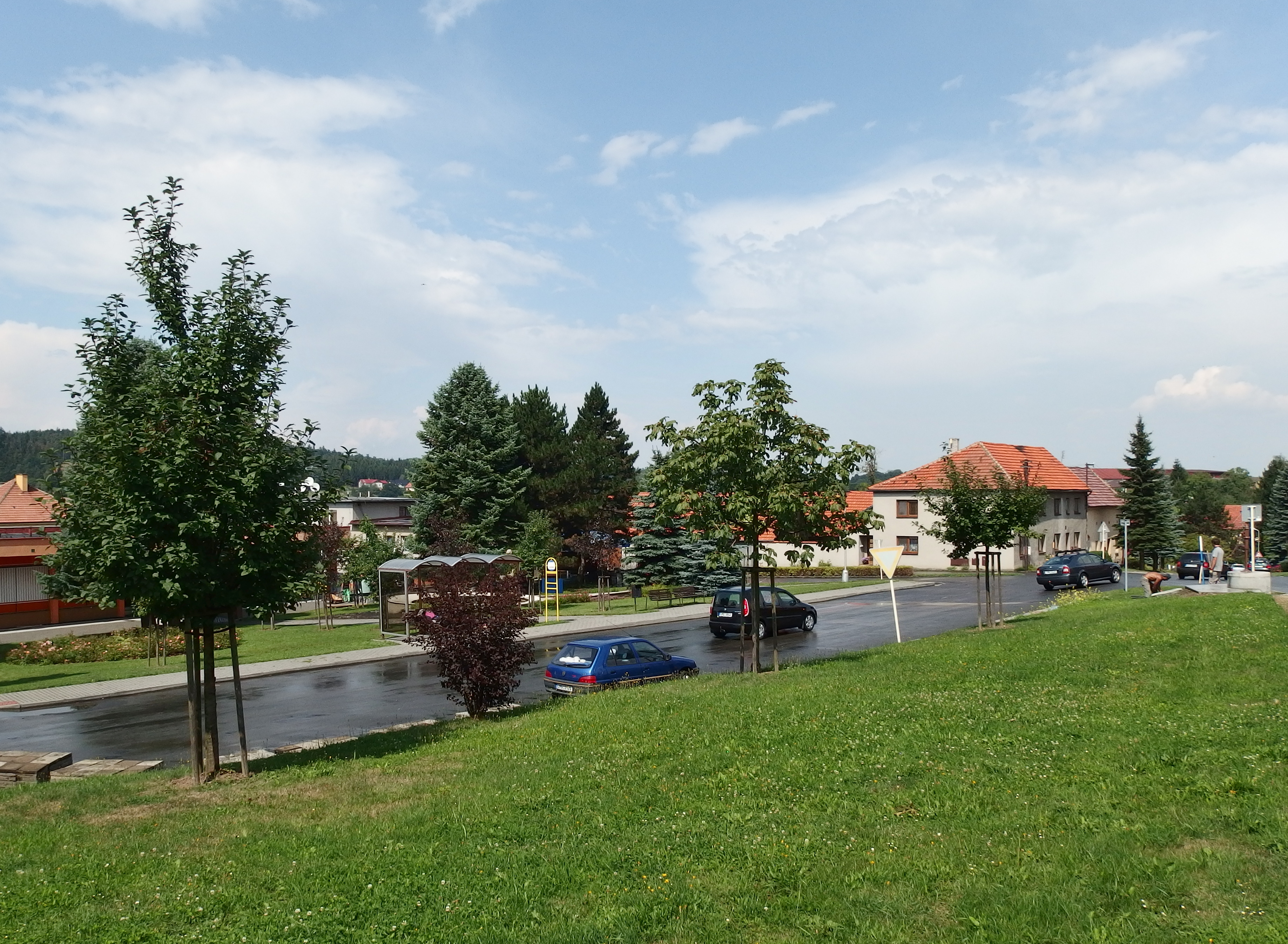 Opatovice, Přerov District, Czech Republic.